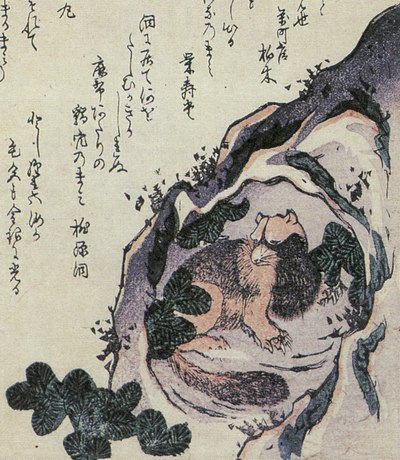 Mami from Kyōka Hyaku Monogatari